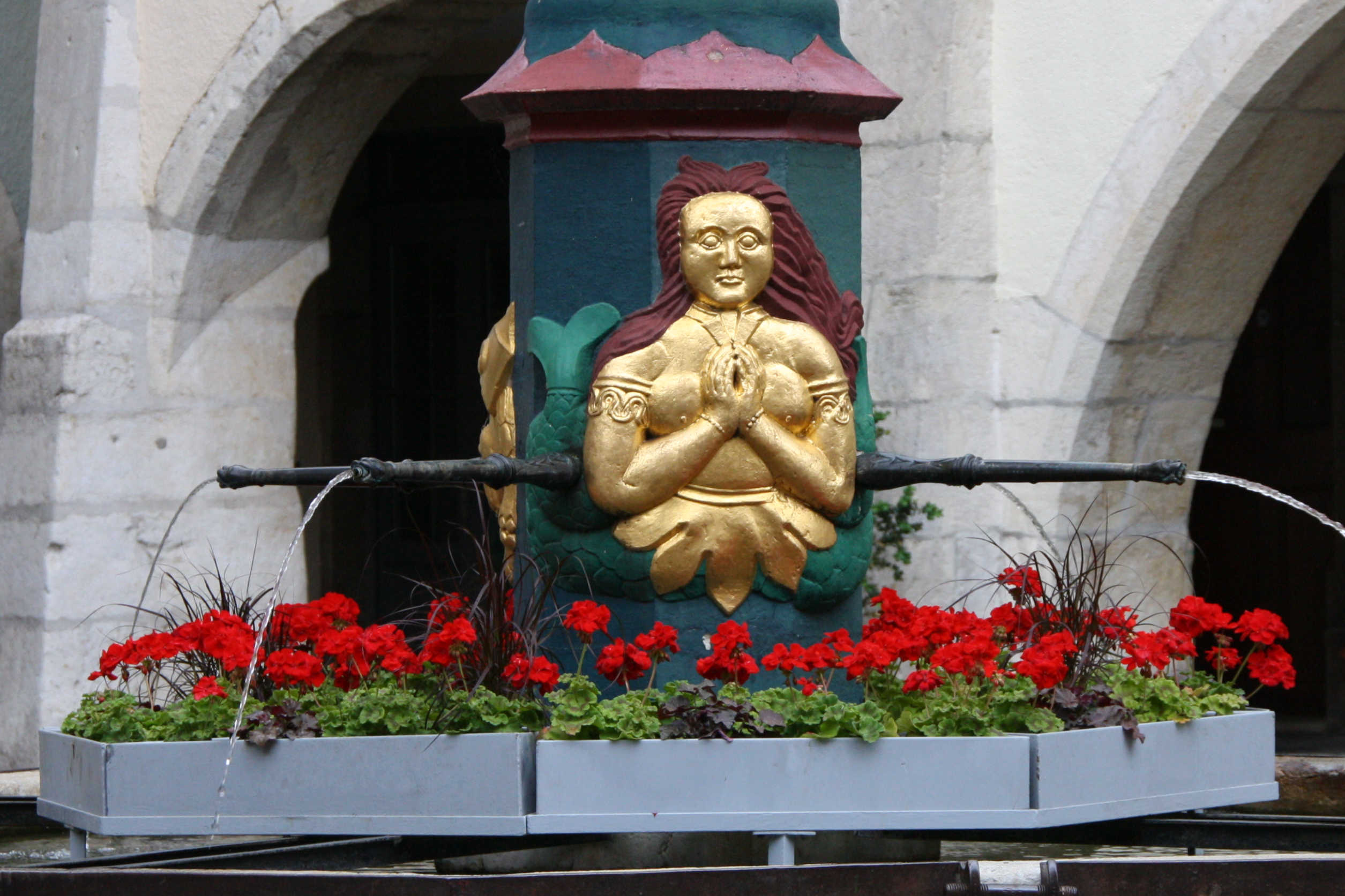 Detail of the Vennerbrunnen in the old town of Biel, Switzerland